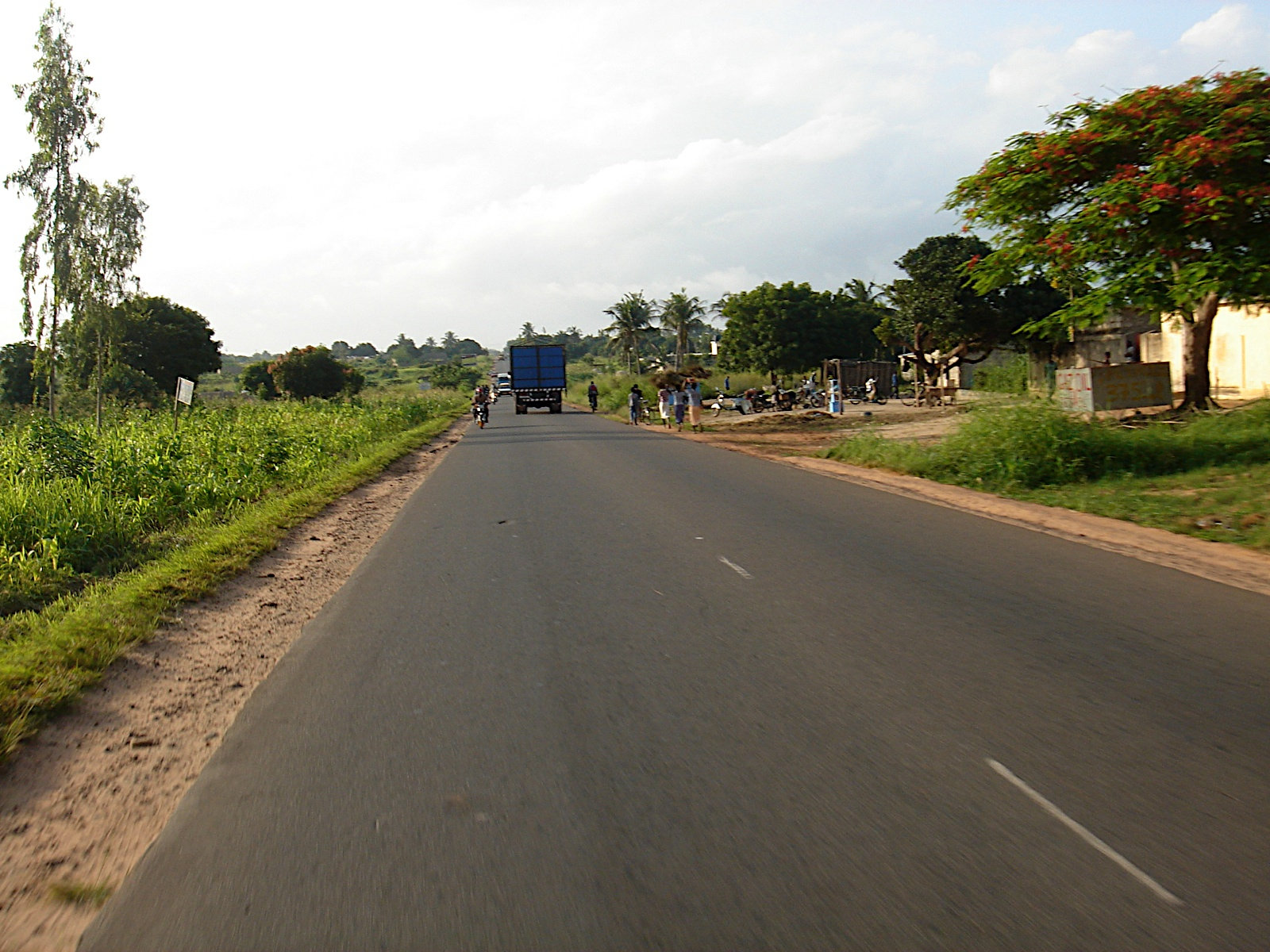 Street near Kpalimé, Togo